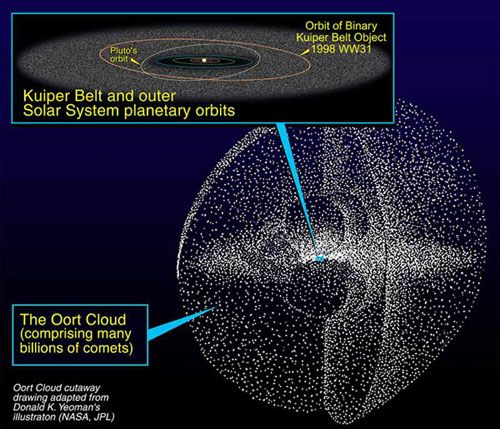 Note: See the version numbered to create or enhance one translation. If you can, help make this description accessible to all by translating it into other languages – thanks!